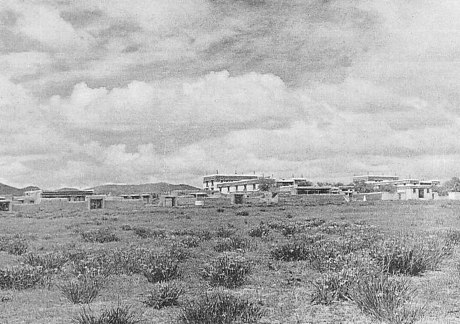 Gegen-miao circa 1940